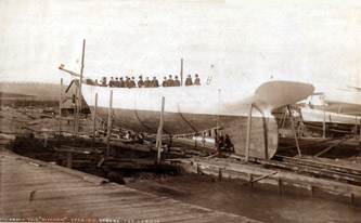 Visitors aboard the hull of the schooner Pitcairn being built in the shipyard of Captain Matthew Turner in Benicia, California